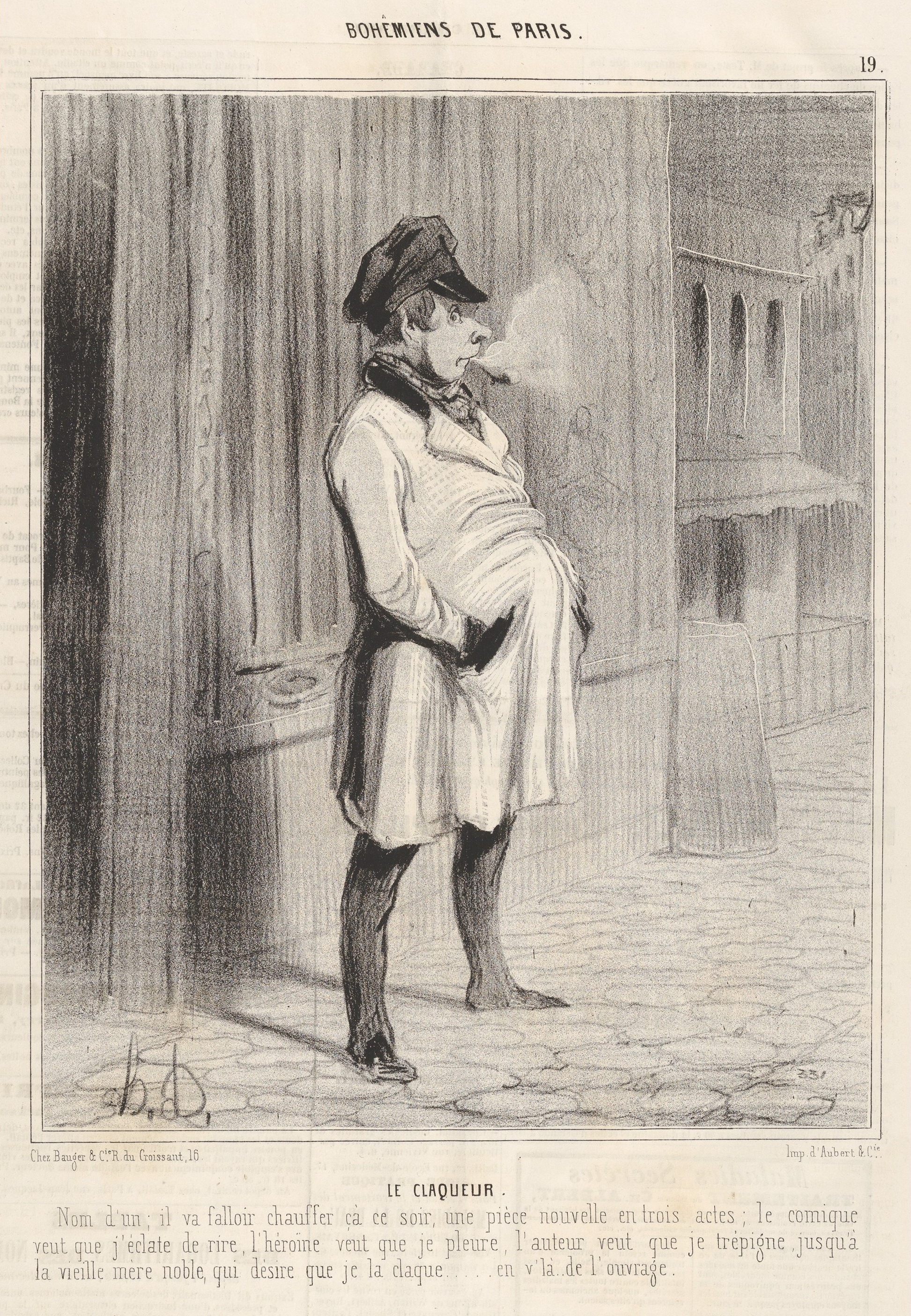 Le claqueur, plate 19 from the series Bohémiens de Paris, published in Le Charivari